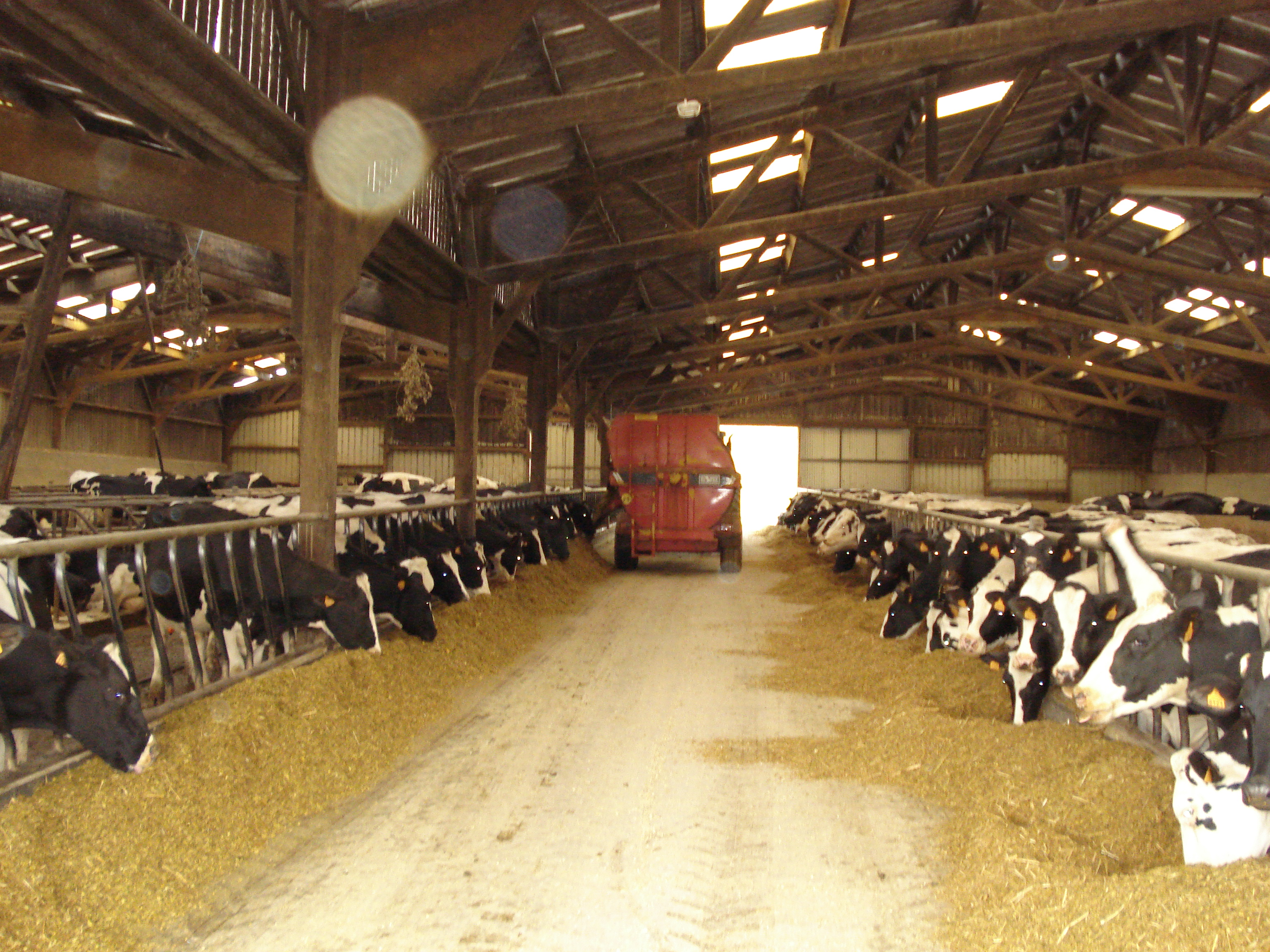 Distributing TMR (Total Mixed Ration) to a group of Holstein dairy cows with a HiSpec mixer-wagon (incl. feeder wagon functionality), France.